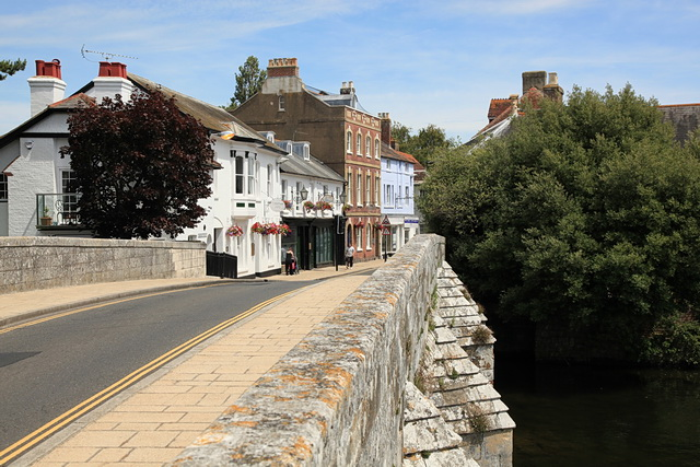 Town Bridge and Bridge Street, Christchurch